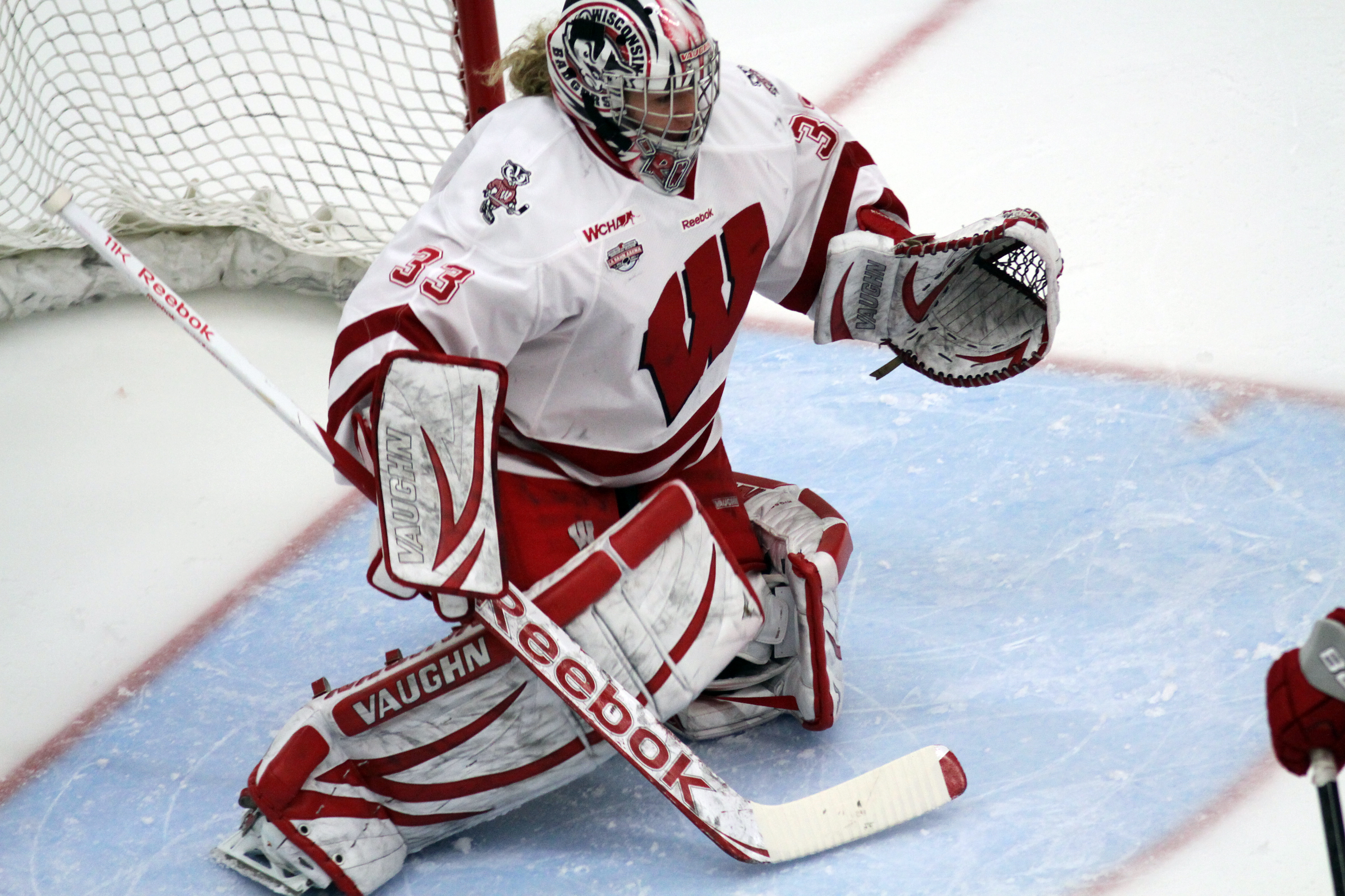 Wisconsin Badgers women's ice hockey goaltender Alex Rigsby